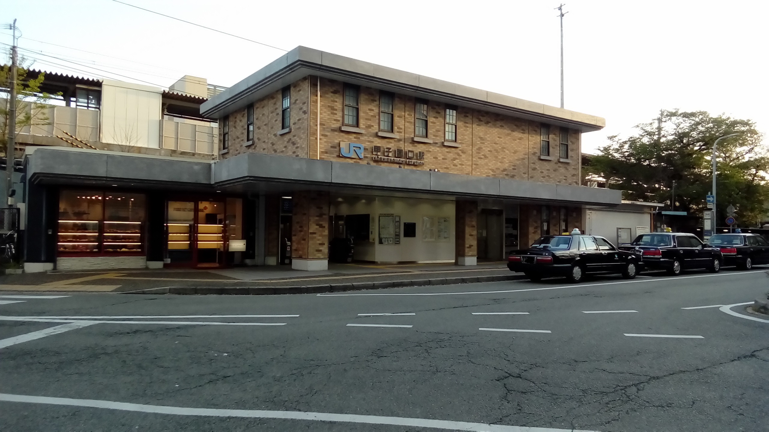 West Japan Railway, Tōkaidō Main Line, Kōshienguchi Station north entrance